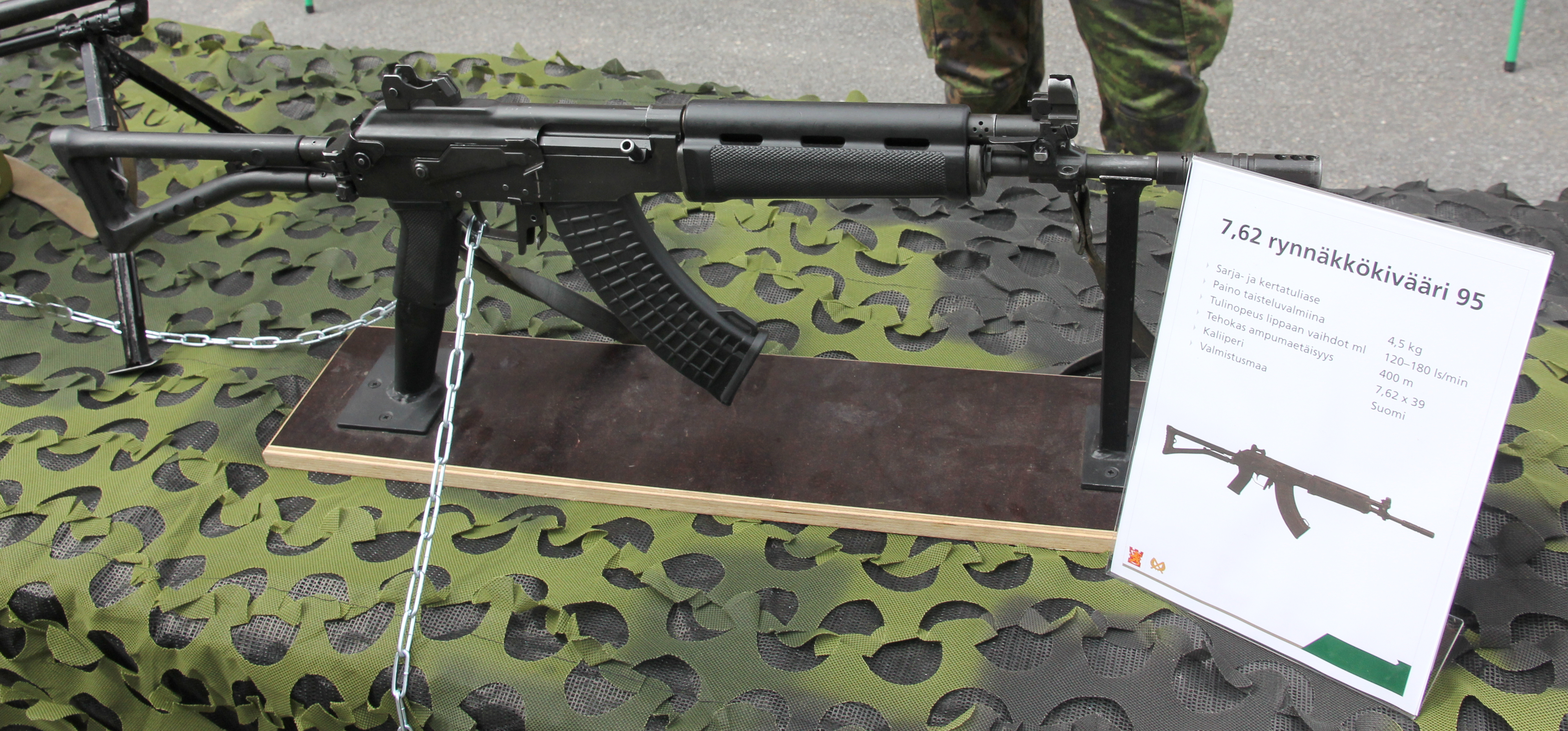 7,62 RK 95 TP assault rifle on display during Finnish Defence Forces 2014 Flag day in Lappeenranta Rakuunanmäki.